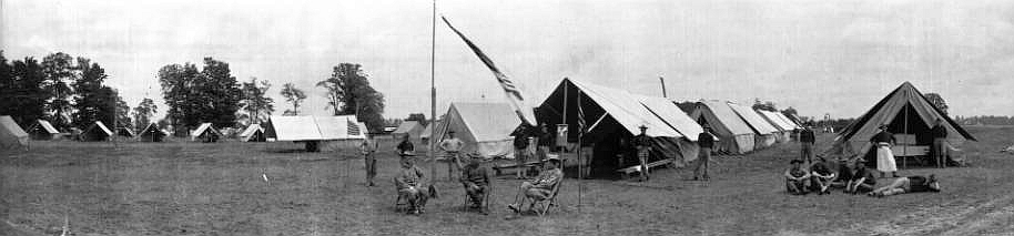 Fort Benjamin Harrison, Lawrence, Indiana.